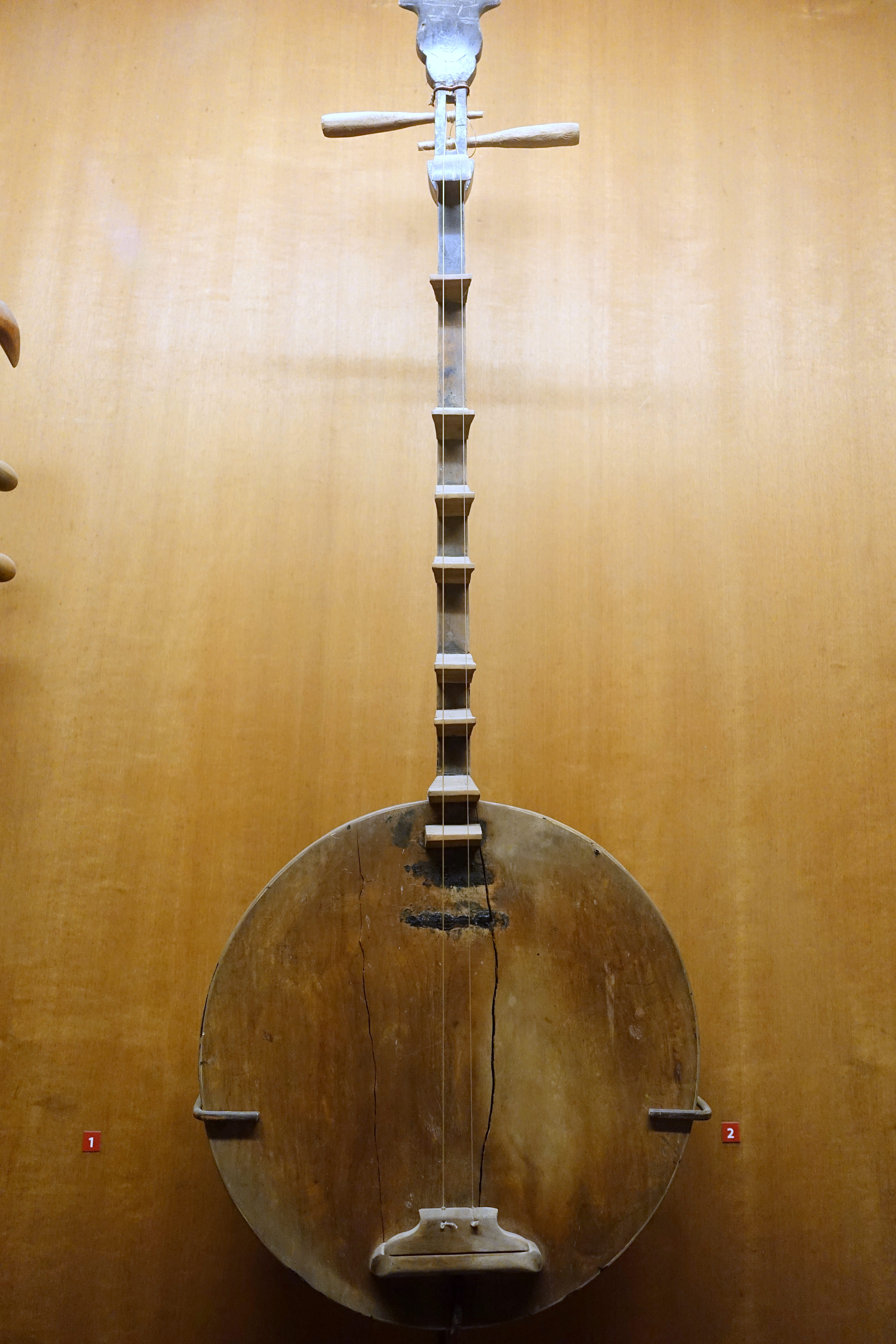 Exhibit in the Vietnam Museum of Ethnology - Hanoi, Vietnam.